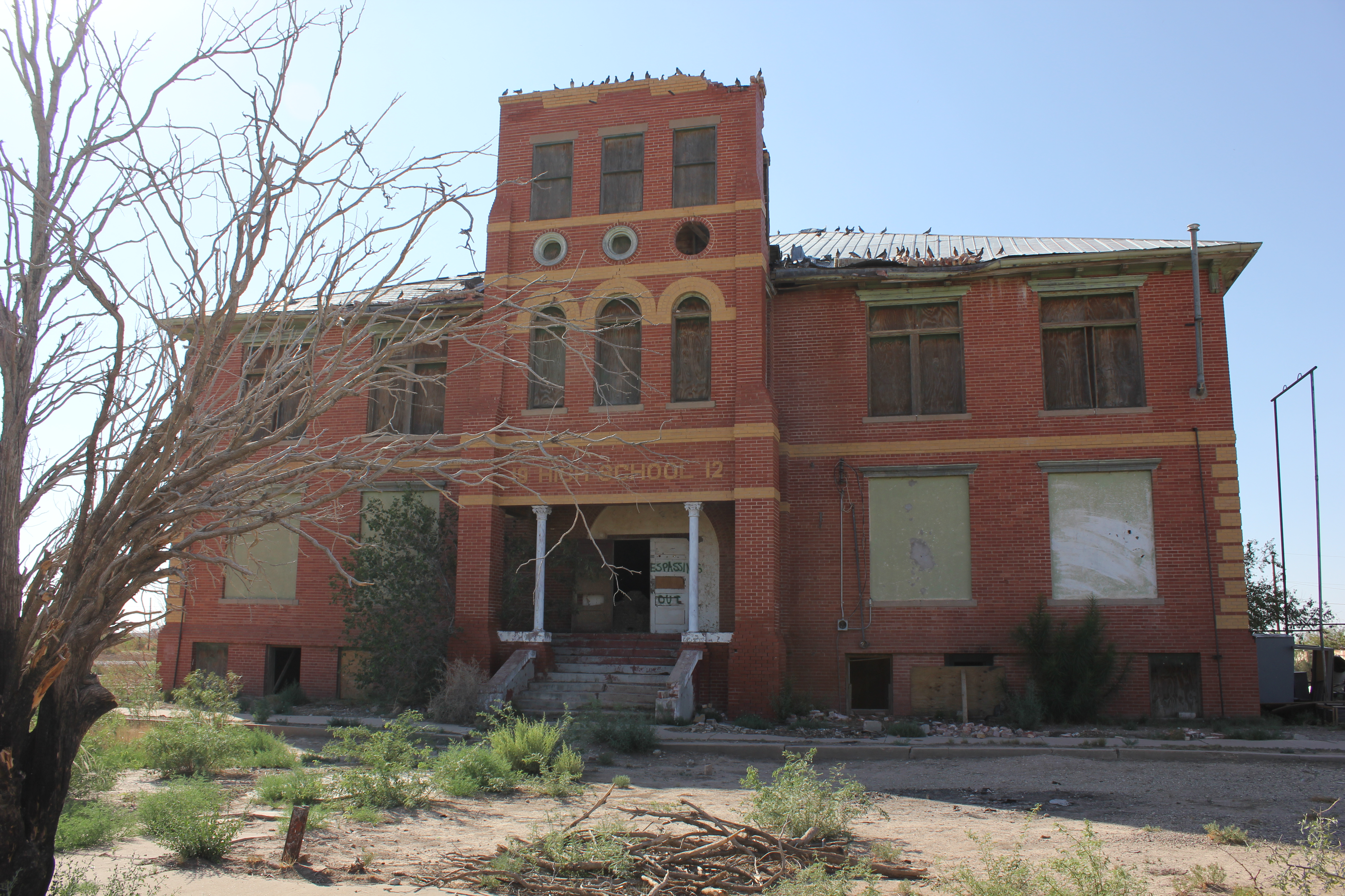 Abandoned school in Toyah, Texas